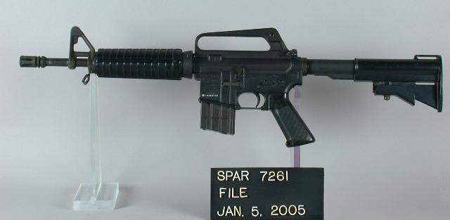 U.S. ASSAULT RIFLE SMG GAU - 5A/A 5.56MM SN# 904536 Manufactured by Colt, Hartford, Ct. - This is simply the Air Force version of the CAR-15 Submachine Gun without the forward assist. Complete with 20-round detachable box magazine. Bolt group missing. GAU = Gun, Automatic (Air Force nomenclature).